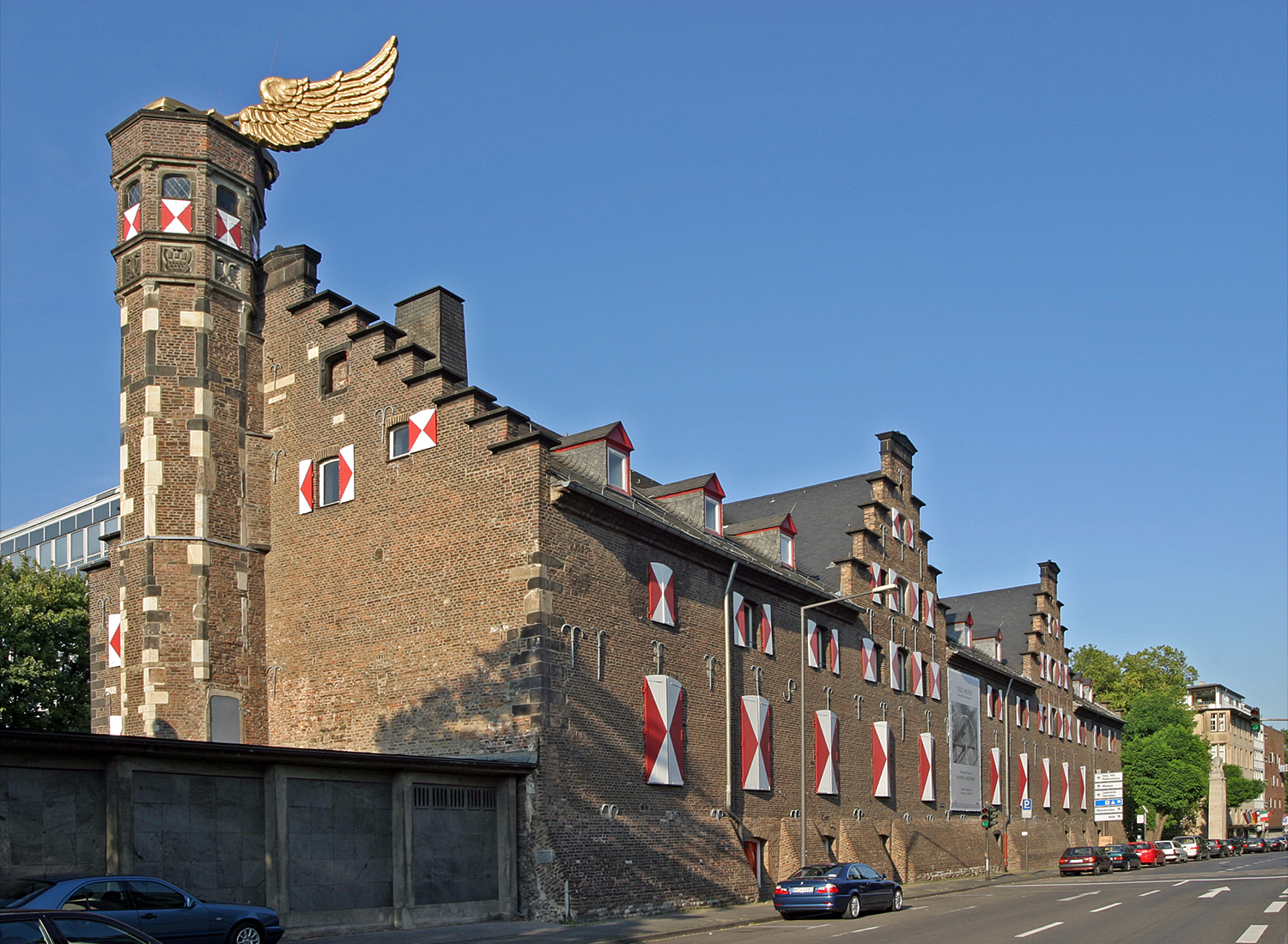 Historic Armoury of the city of Cologne, Germany. Now used as museum. Artwork "winged car" on top of tower by artist HA Schult.